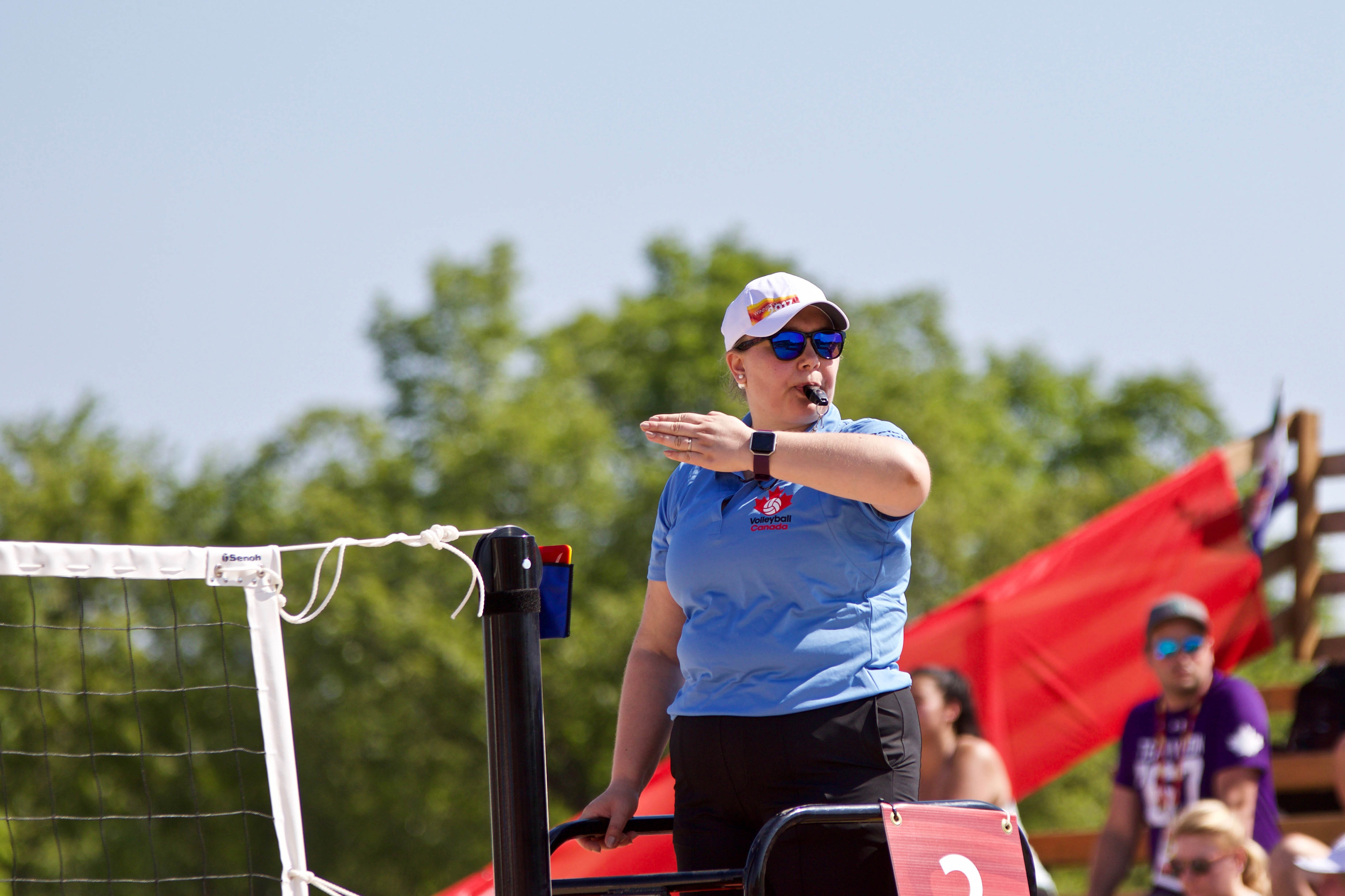 Photo by Ken Sterzuk